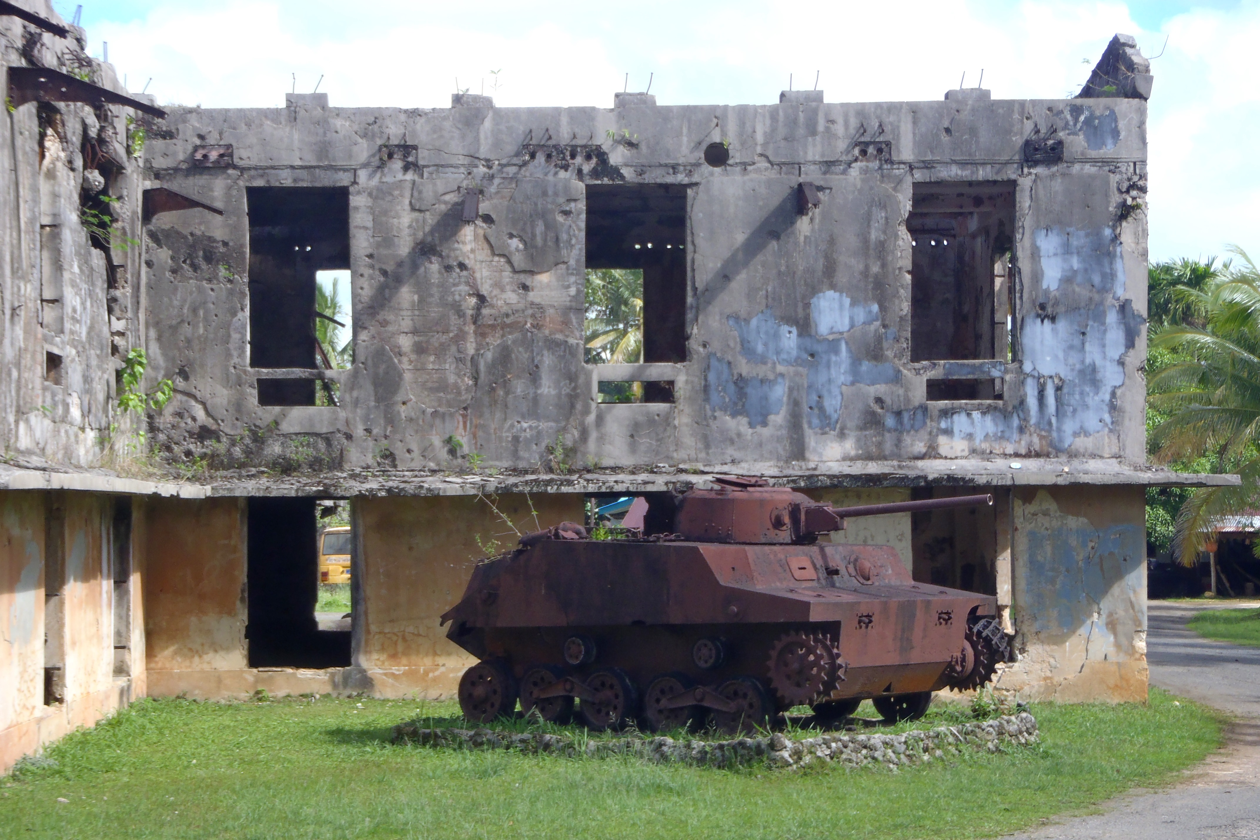 World War II tank on Babelthuap Island, Palau, 2012. Photo: Erin Magee / DFAT